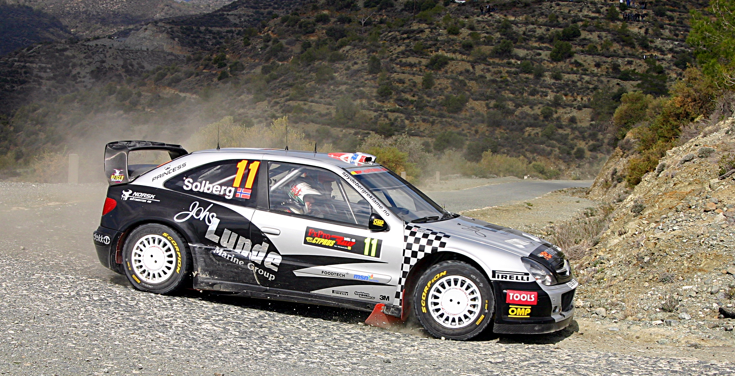 Petter Solberg driving his Citroën Xsara WRC at the 2009 Cyprus Rally.